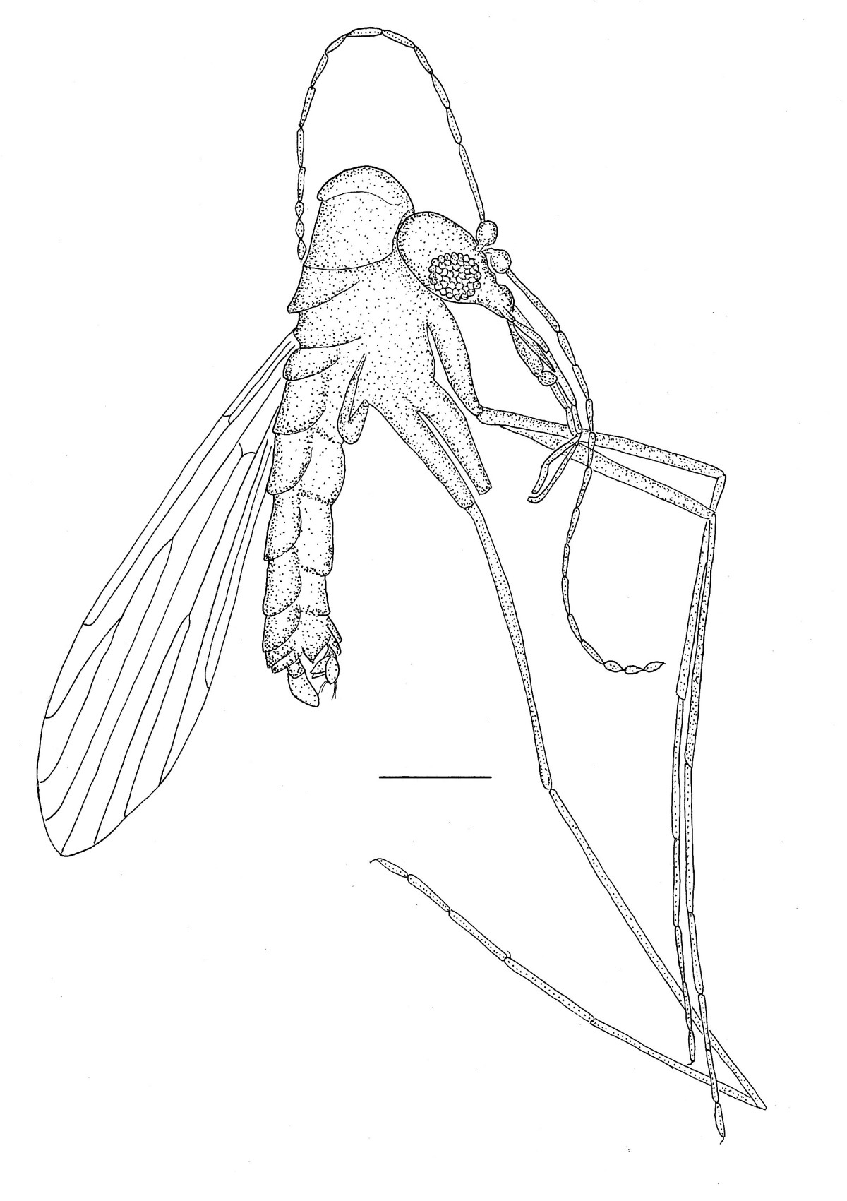 Drawing of Lutzomyia adiketis showing wing venation. Bar = 270 μm.